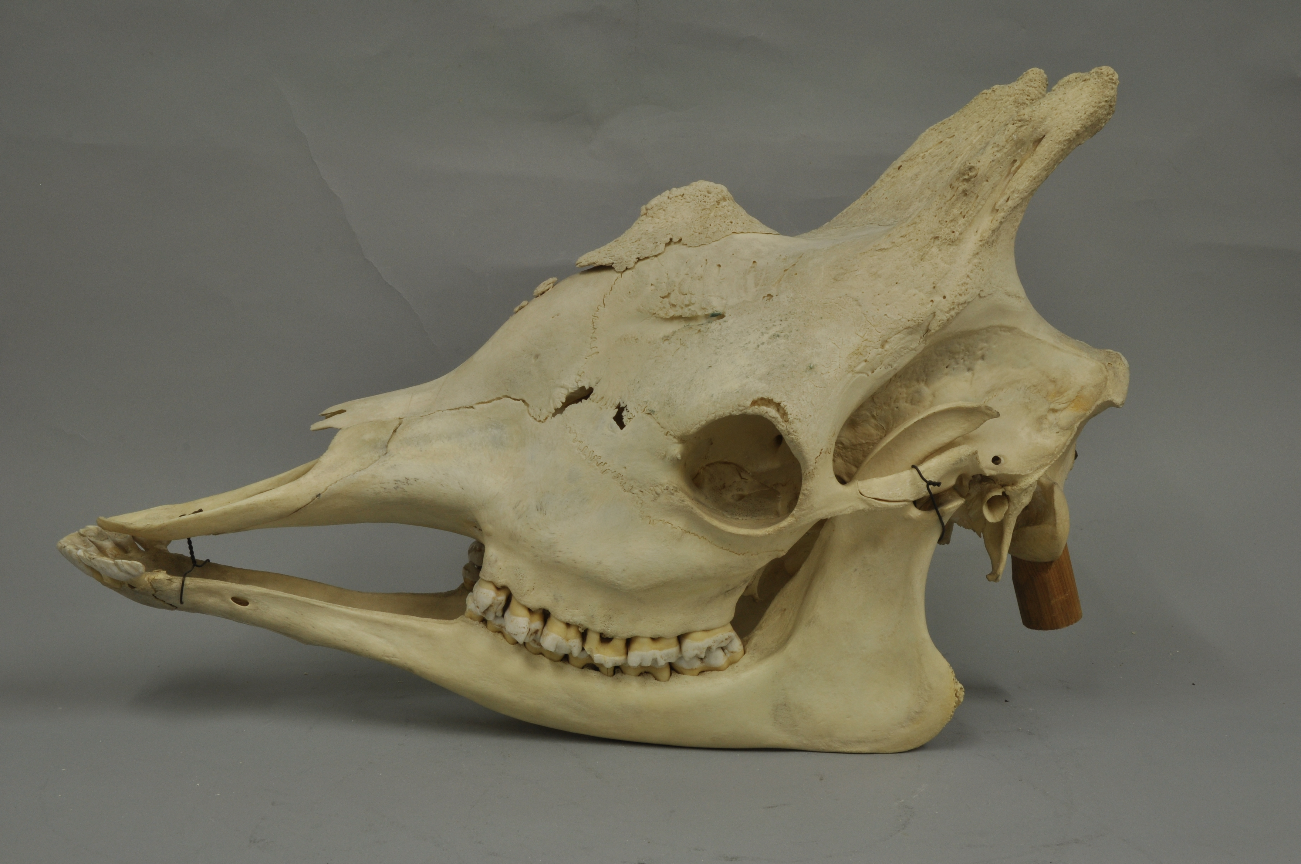 Giraffe Giraffa camelopardalis, skull, Coll. Museum Wiesbaden